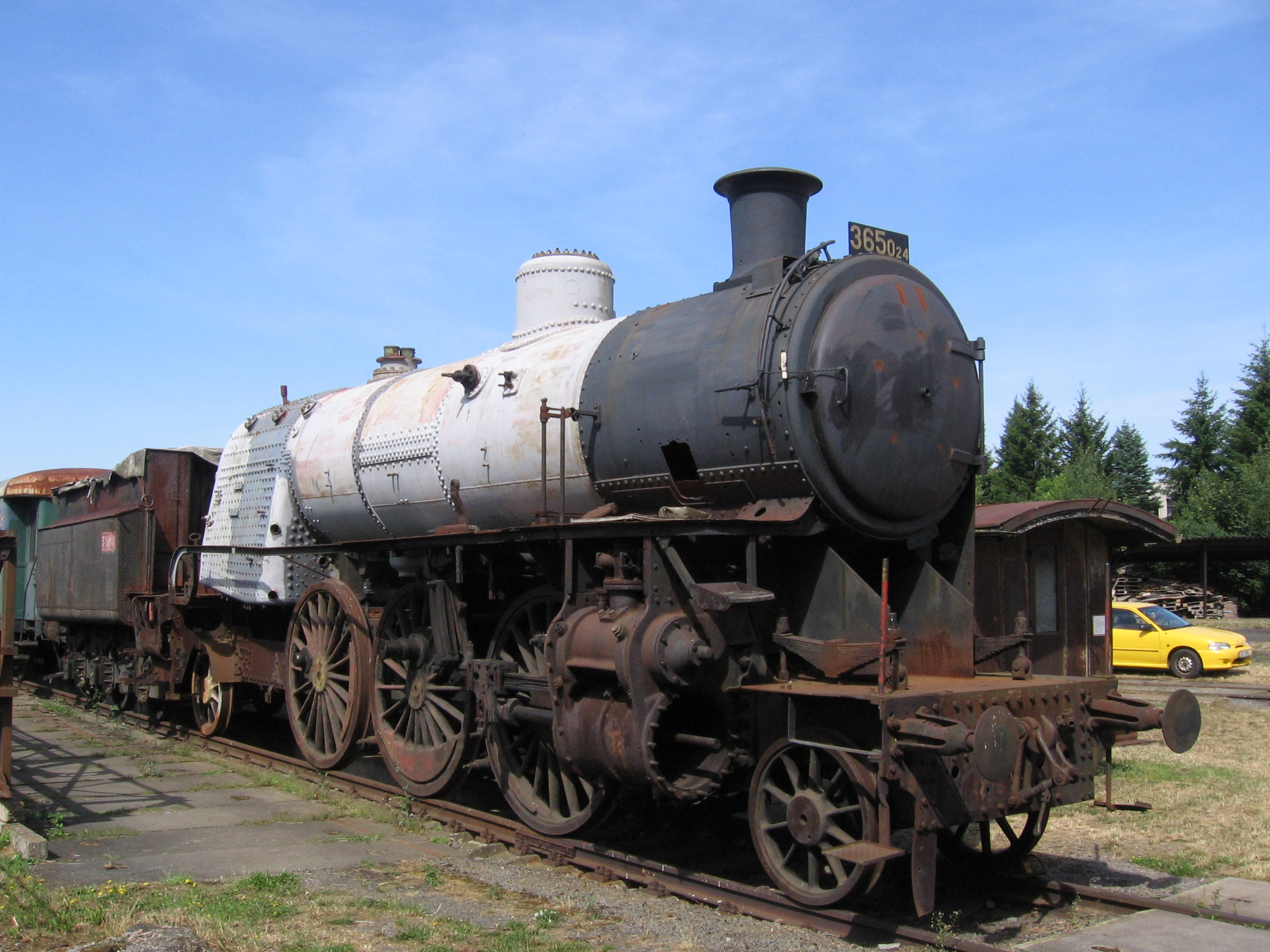 ČSD 365.024 in museum Jaroměř